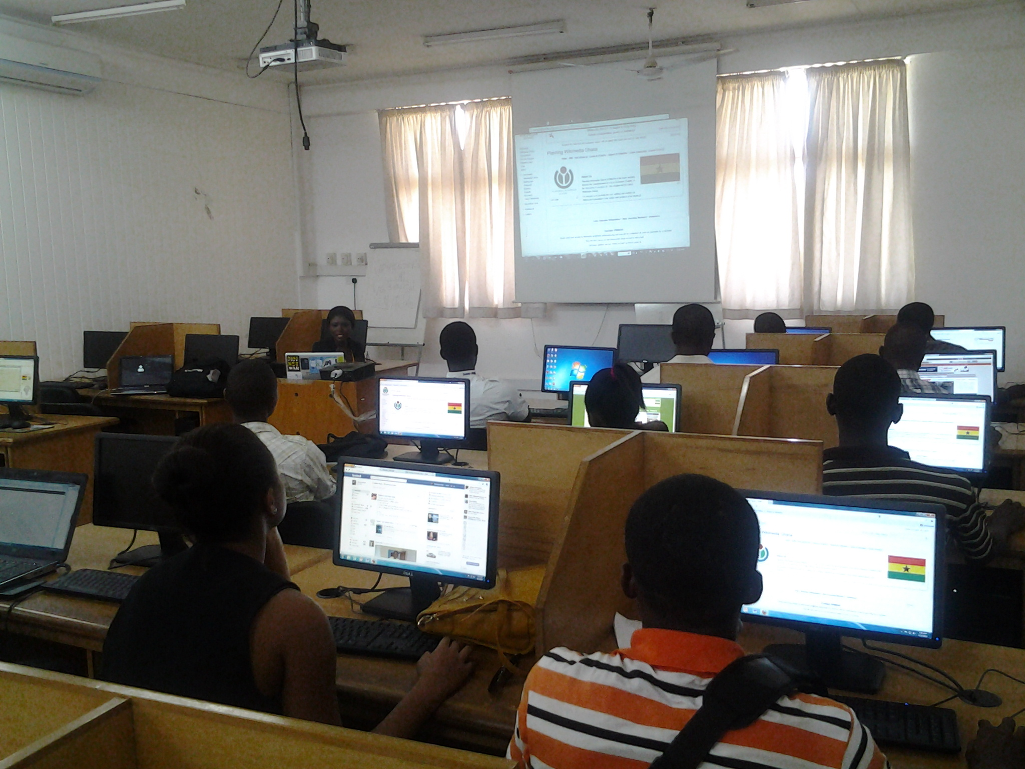 University of Ghana training